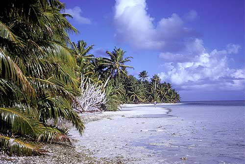 Coconut Palms (Cocos nucifera) lines the beach on the lagoon side of South Island, Caroline Atoll, Kiribati.